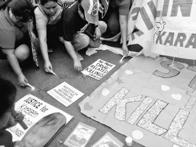 Protest mobilization against Oplan Tokhang (Philippine Drug War) remembering the victims